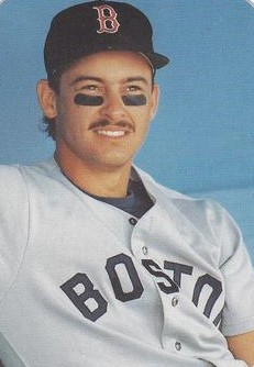 Image cropped from a baseball card of MIke Greenwell from the 1986 Boston Red Sox Photo Cards set.